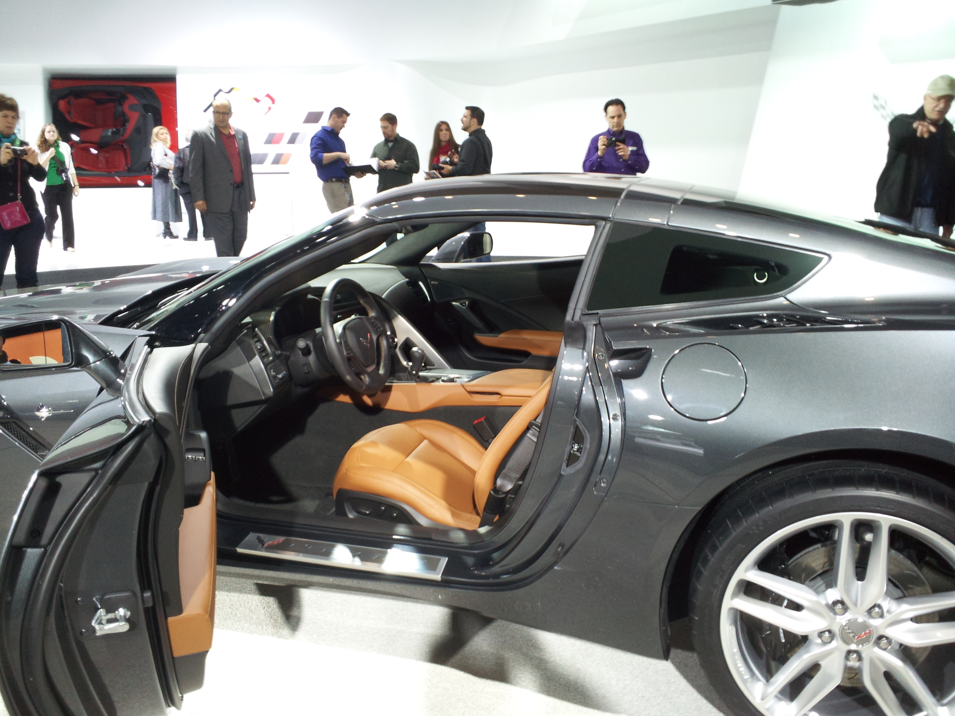 My personal photo of the 2014 Corvette announcement at the North American International Auto Show January 17, 2013. Shows the Kalahari color interior in a Cyber Gray coupe.